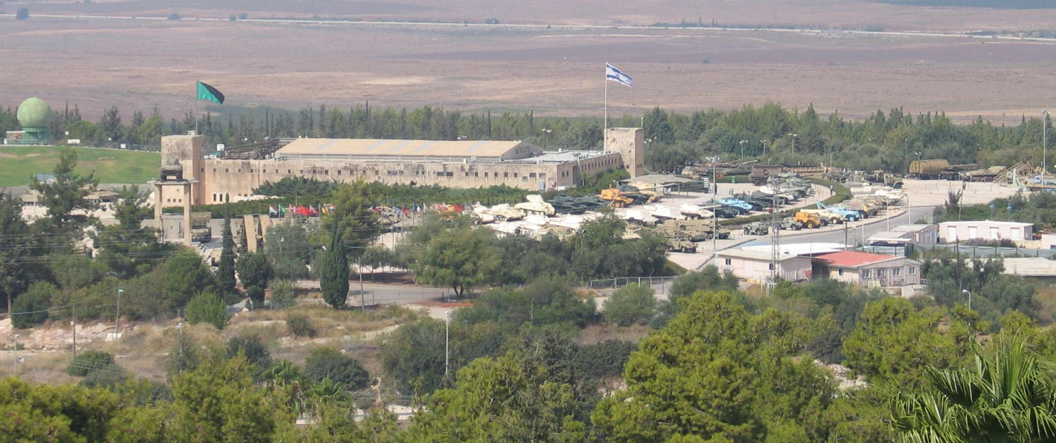 Yad la-Shiryon museum grounds with the Teggart fort as seen from the ruins of the crusader castle, Latrun, Israel.